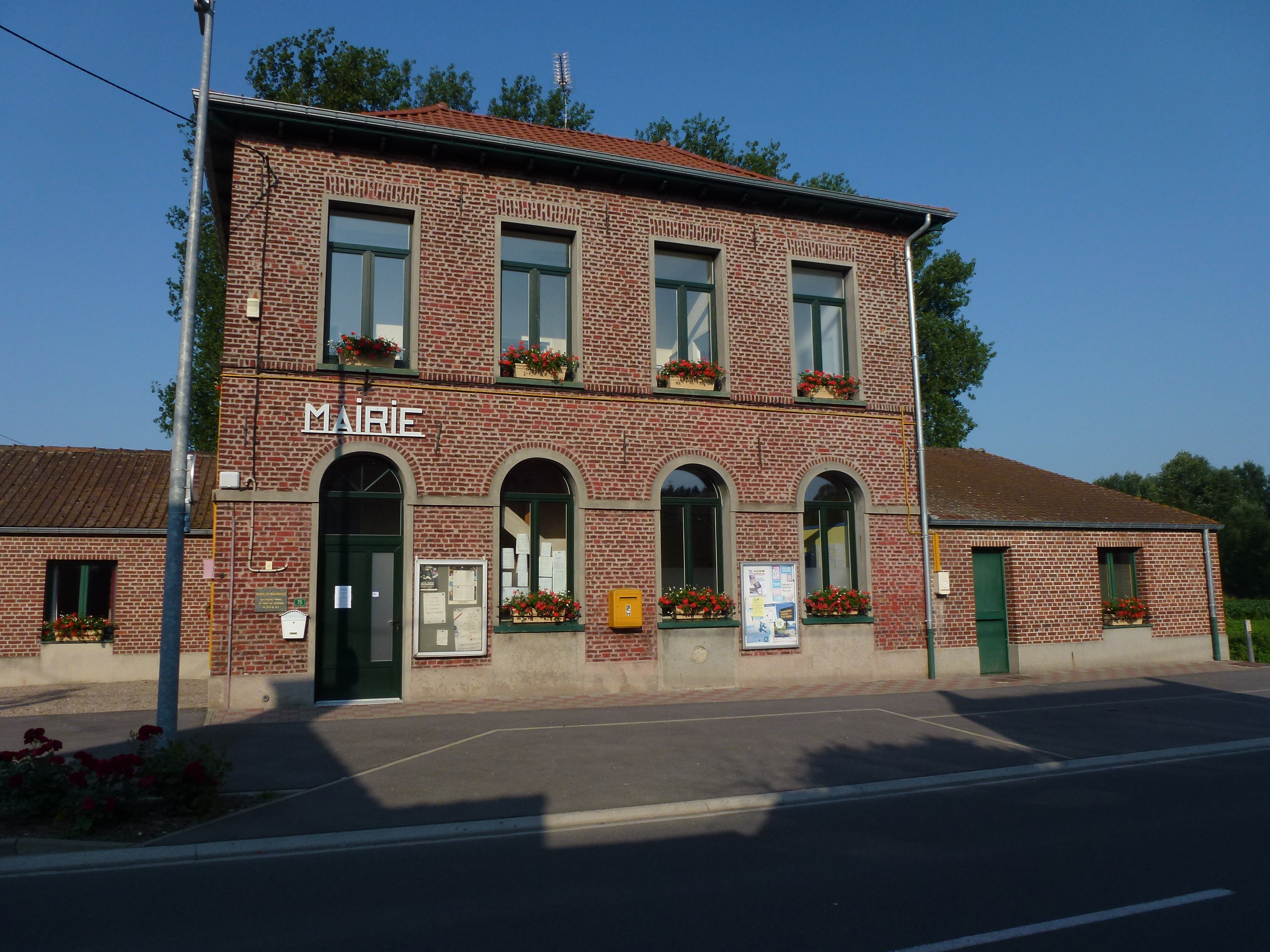 Millonfosse (Nord, Fr) mairie